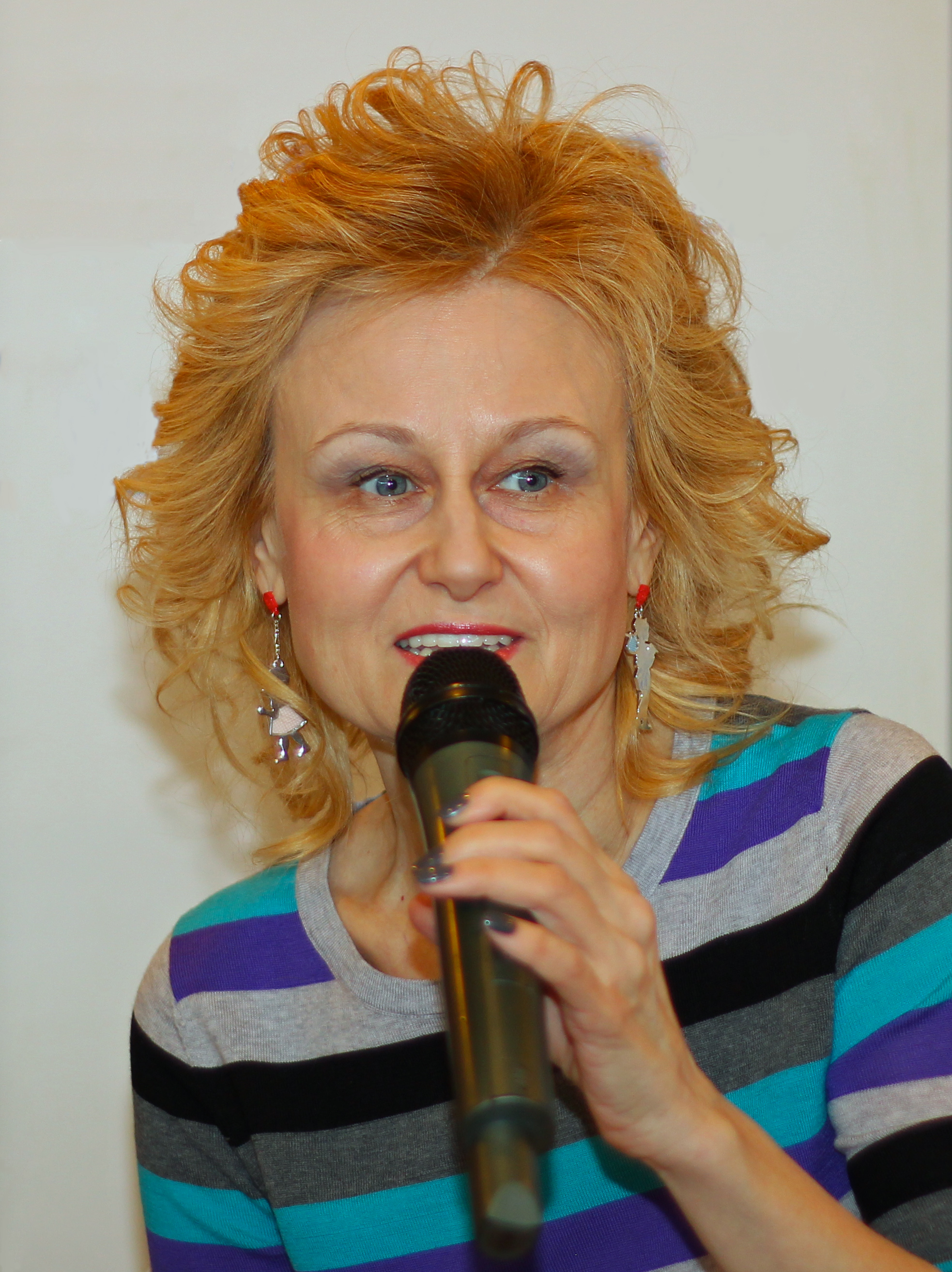 Russian crime fiction writer Darya Dontsova signs her books in Moscow